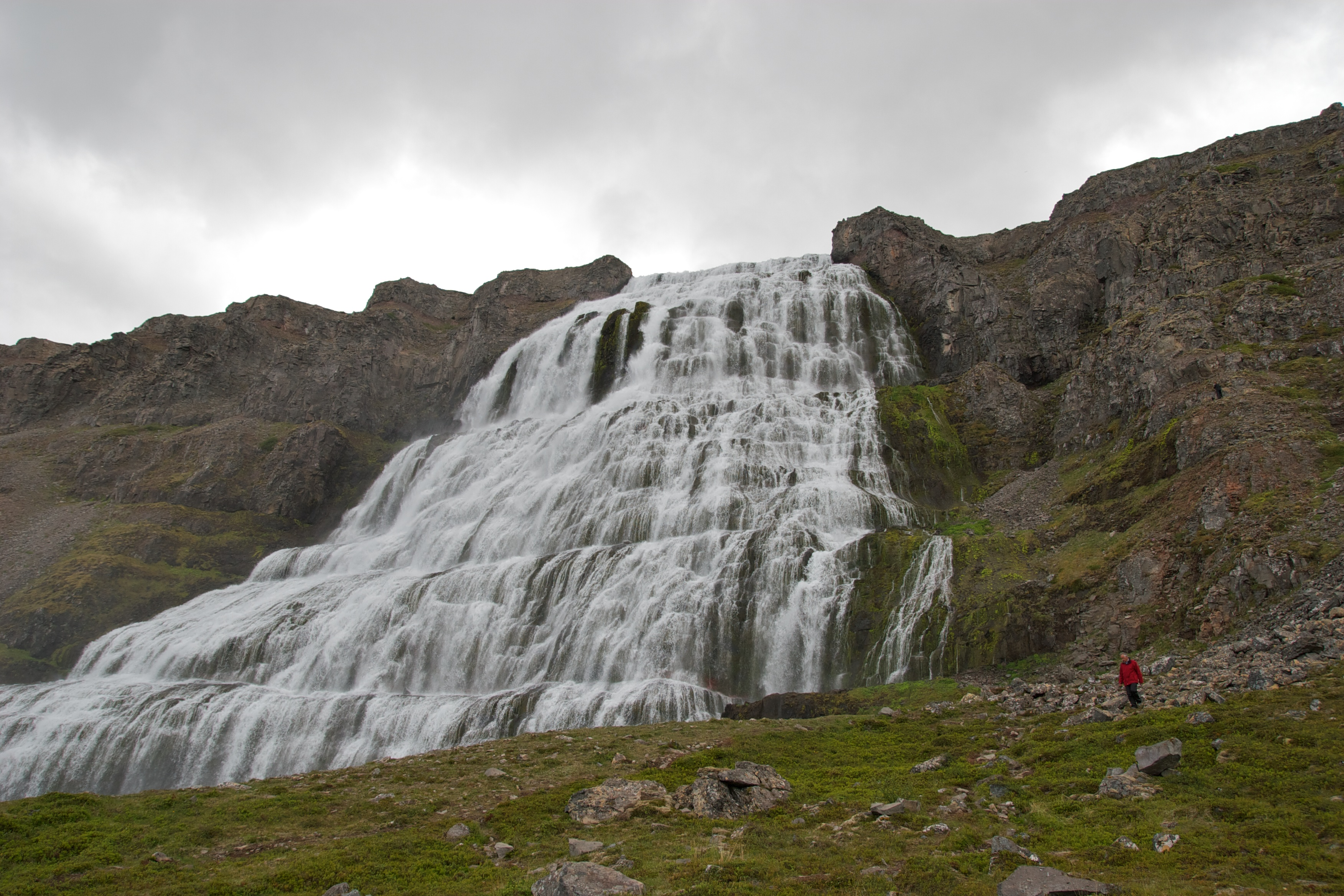 Dynjandi waterfall in the Vestfjords, Iceland.